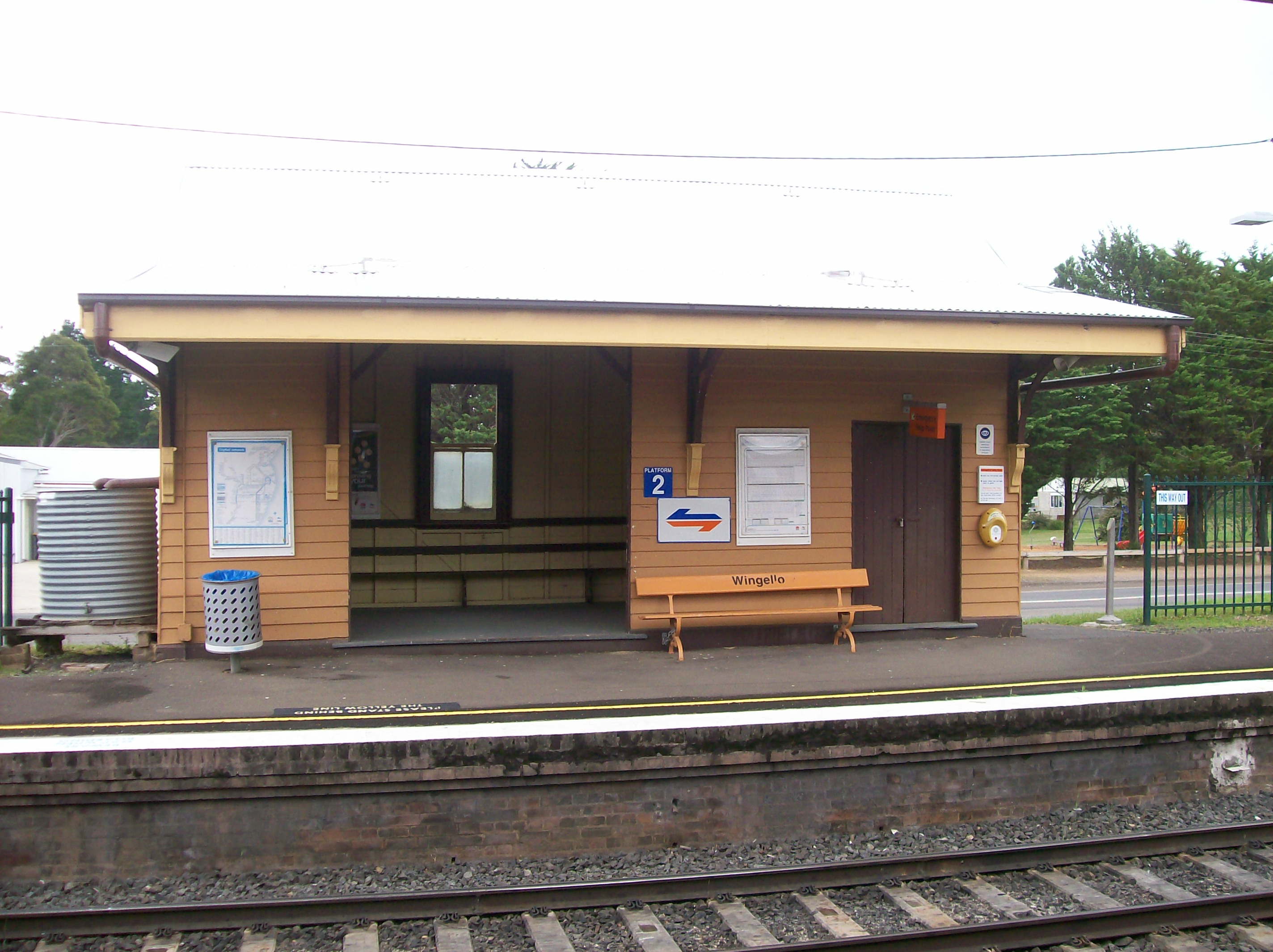 Wingello railway station platform 2 waiting room